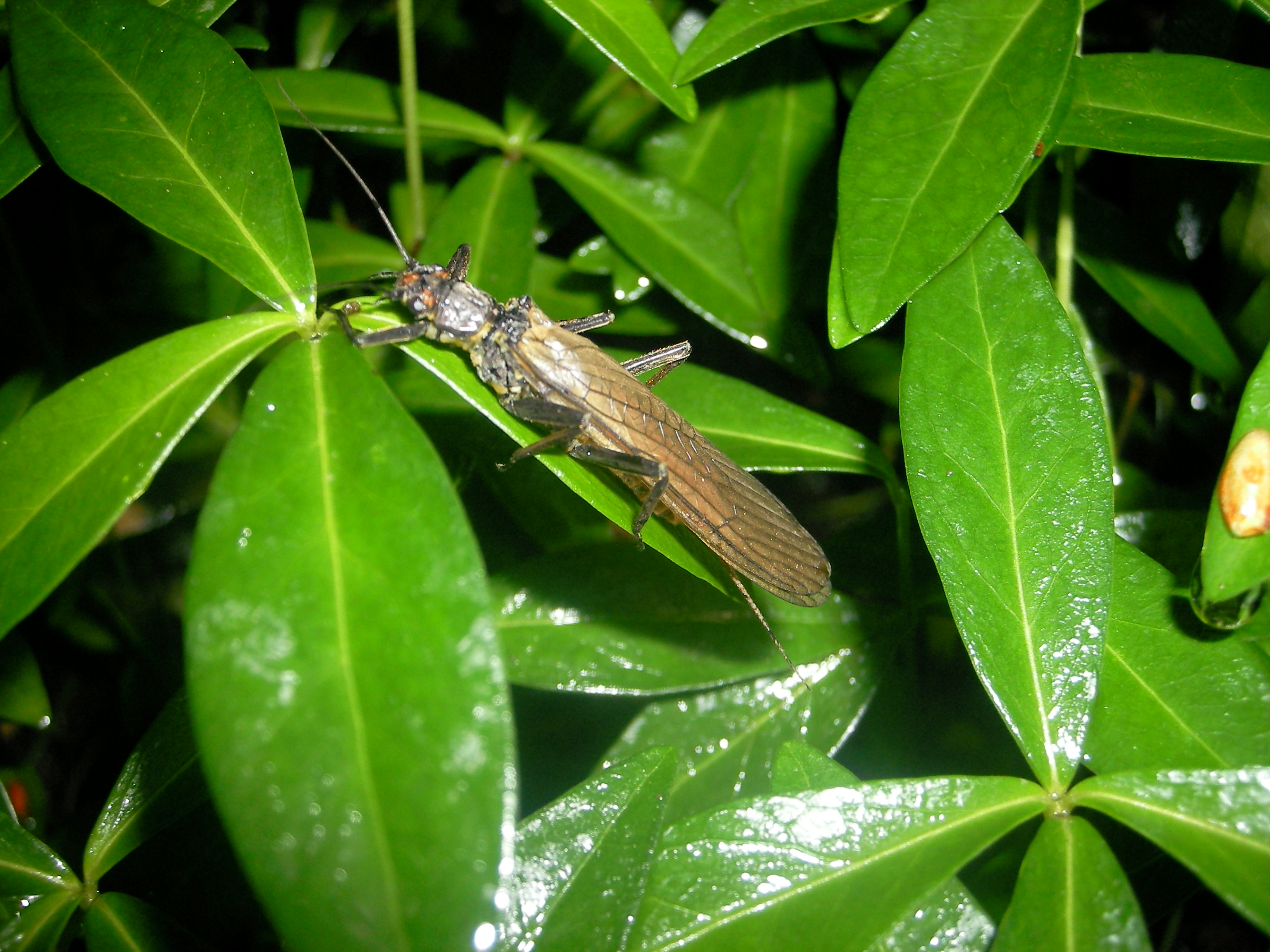 Perlodes spec.